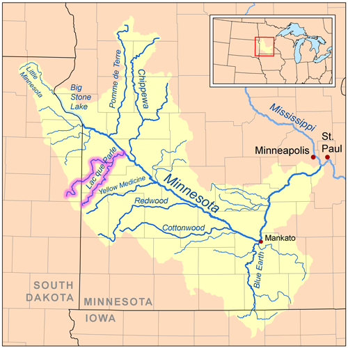 Map of the Minnesota River watershed with the Lac qui Parle River highlighted (including its West Branch).